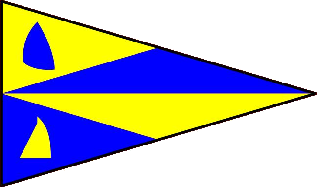 Burgy of Surf, Zeil en Watersport Vereniging Uitdam, The Netherlands